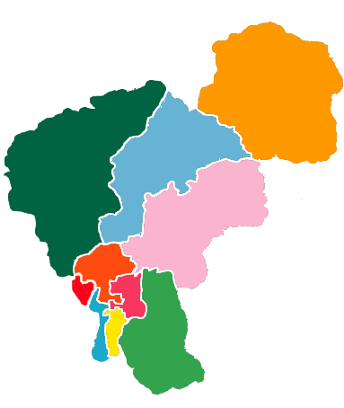 Subdivision of Changchun